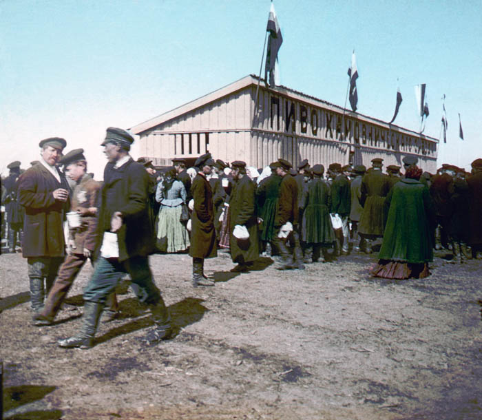 Moscow, Coronation entertainment, May 30, 1896 - Beer shed on Khodynsky field